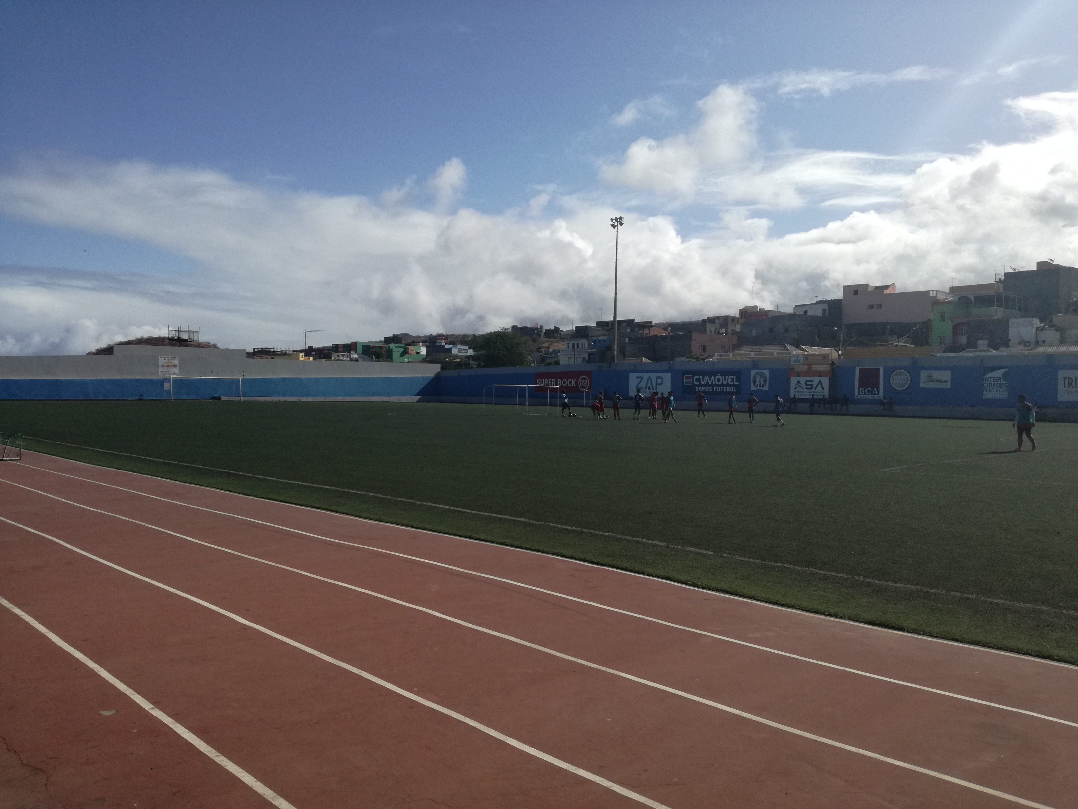 View of the playing field